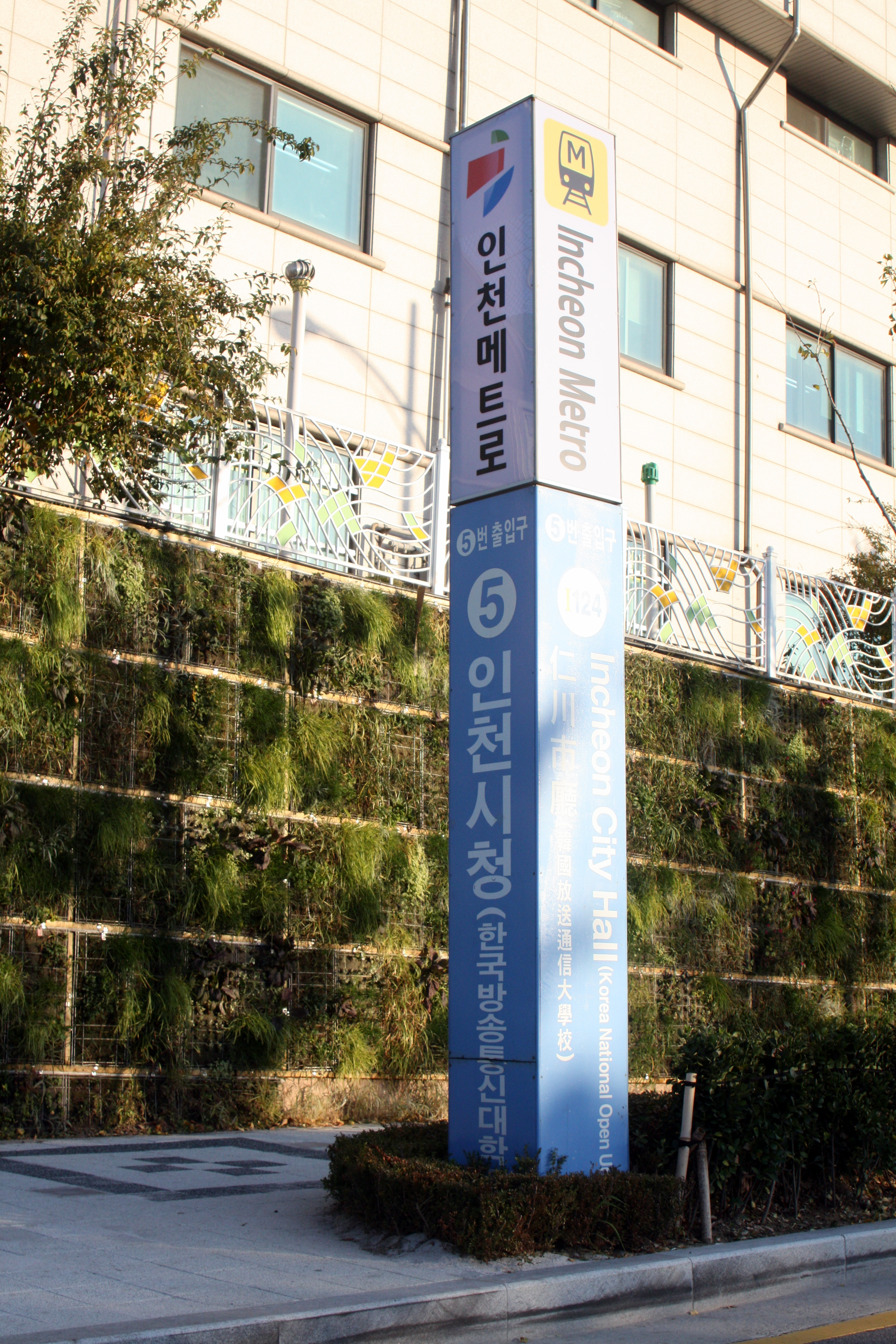 Incheon Subway Line 1 Incheon City Hall Station-Exit no.5